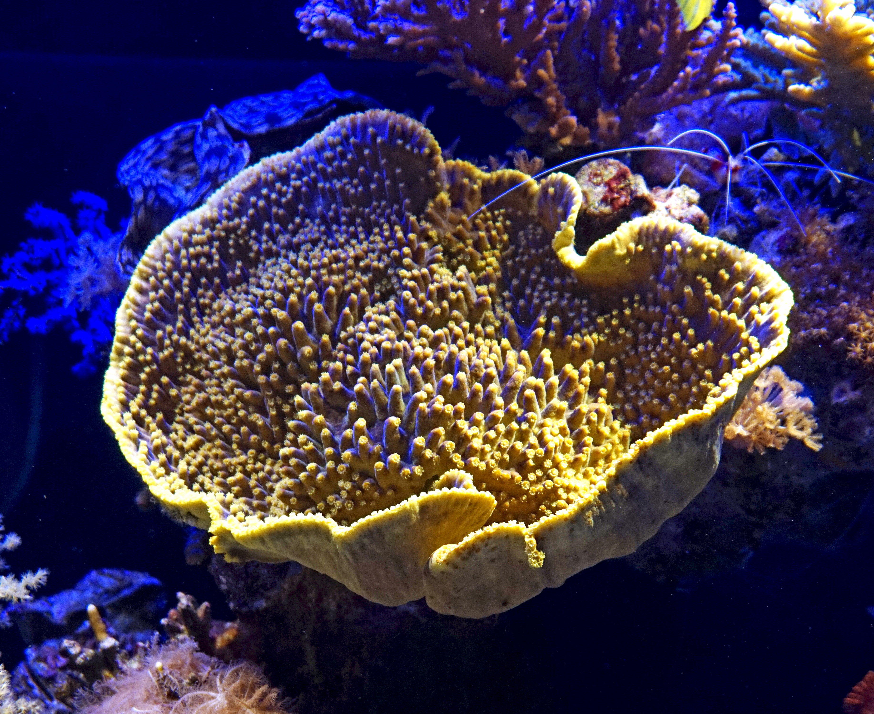 An yellow coral in Underwater Observatory Marine Park, Eilat.This photograph was taken with a Sony ILCE-5000